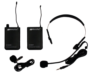 Lavalier mikrofon